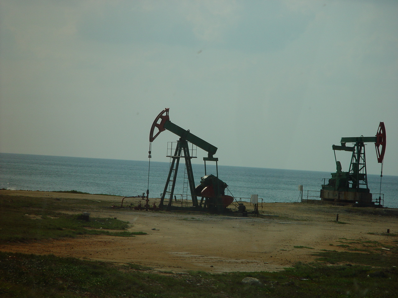 Jack pumps in the Boca De Jaruco oil field, La Habana Province, Cuba